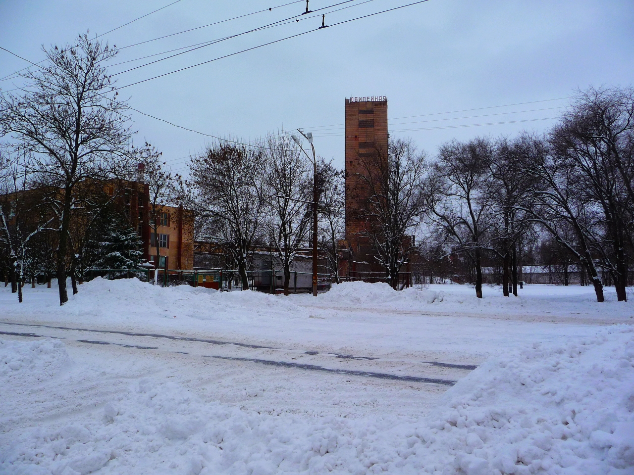 Mine Yubyleynaya